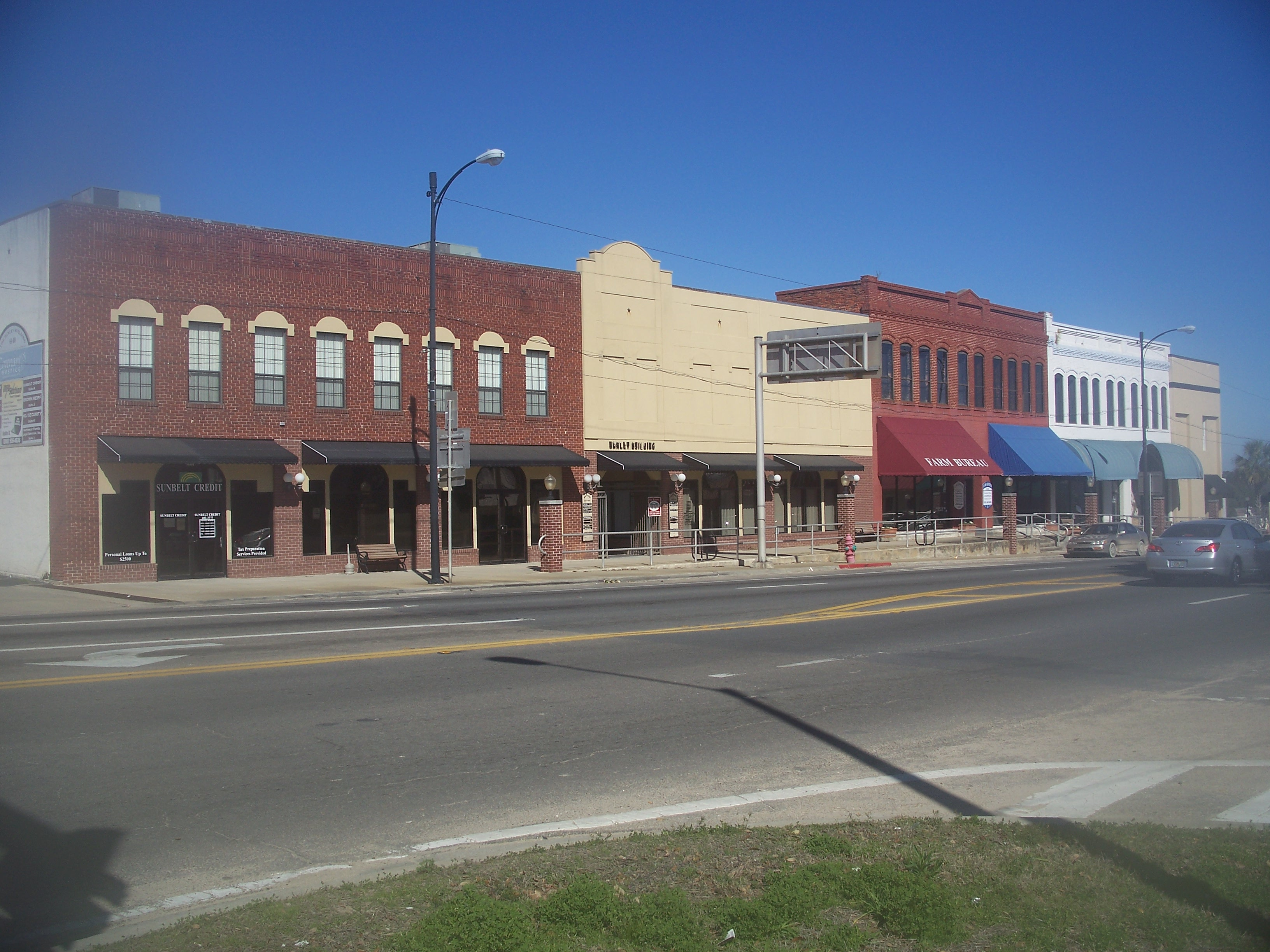 Marianna, Florida: Marianna Historic District: Historic buildings along US 90